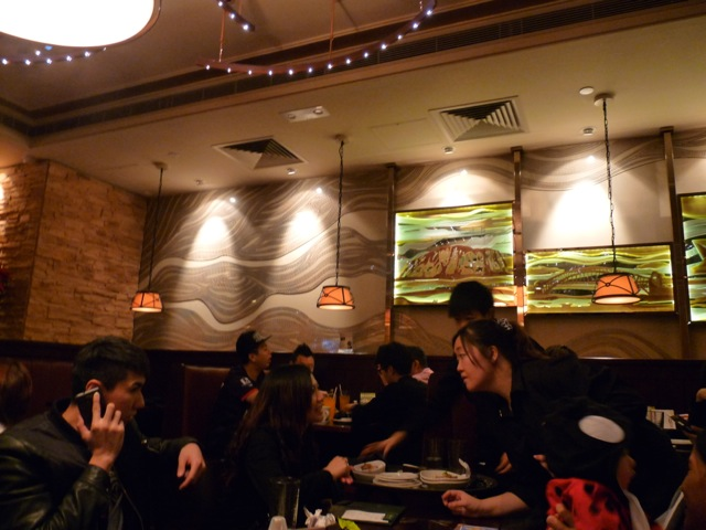 Outback Steakhouse in Hong Kong